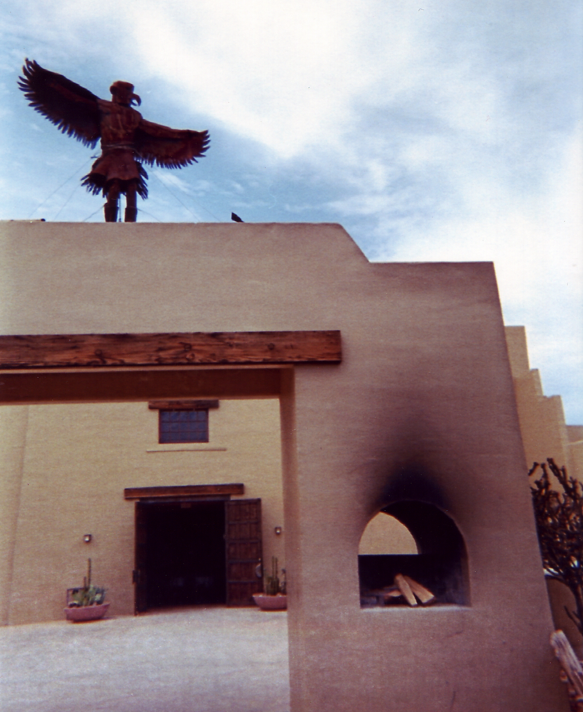 A metal statue signifying a Kachina dancer from the Hopi mythology — at the Carefree Resort in Carefree, Arizona.